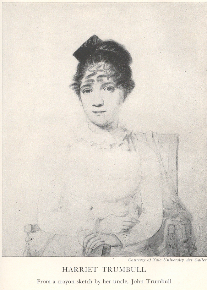 Portrait of Harriett Trumbull by her uncle John Trumbull